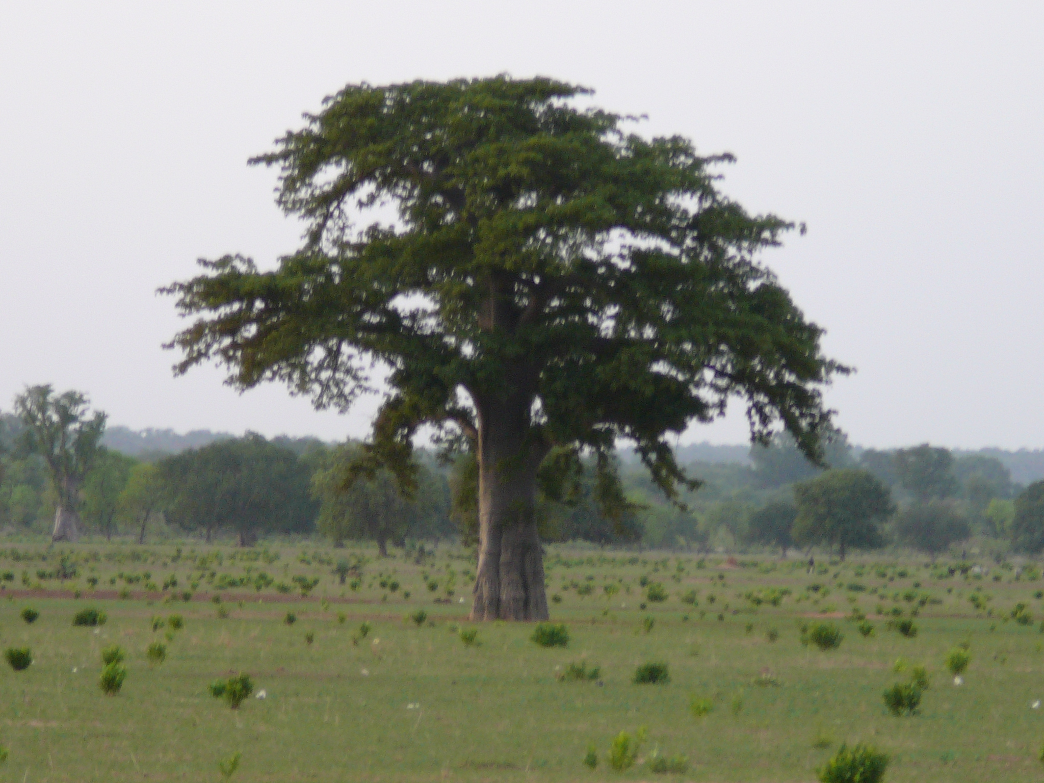 Adansonia digitata